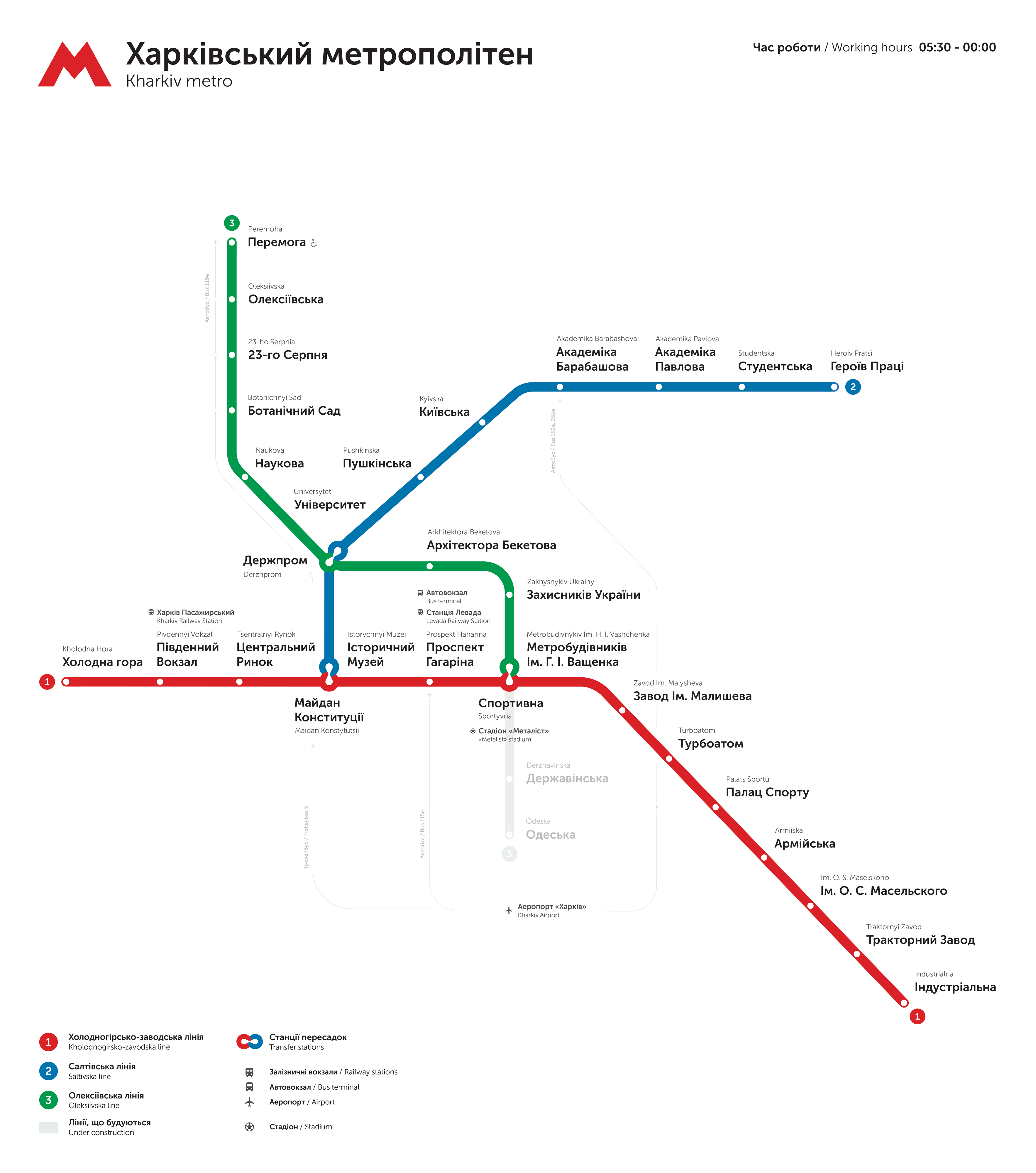 Kharkiv Metro Map 2020